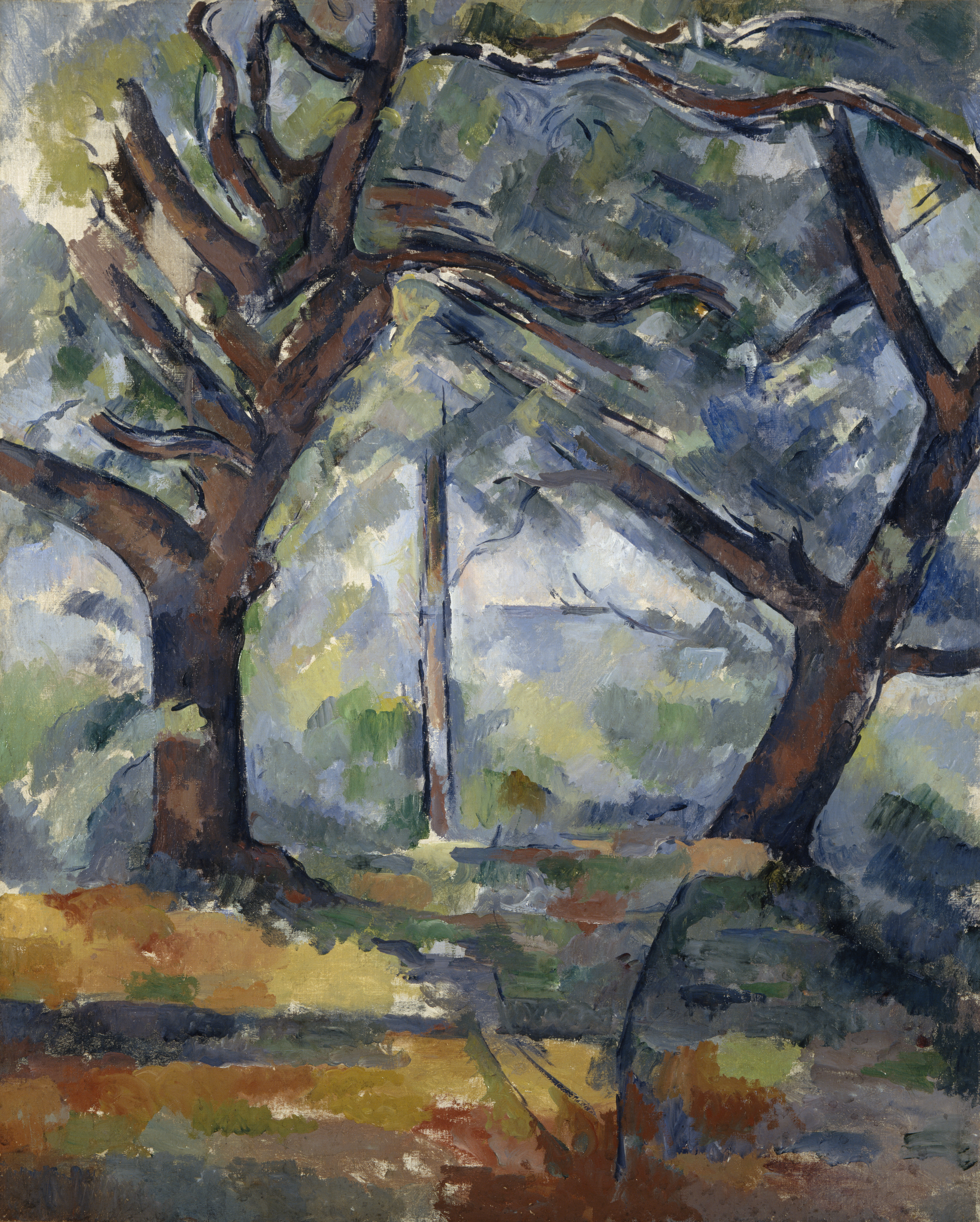 It's a painting of Paul Cézanne which is in National Gallery of Scotland.